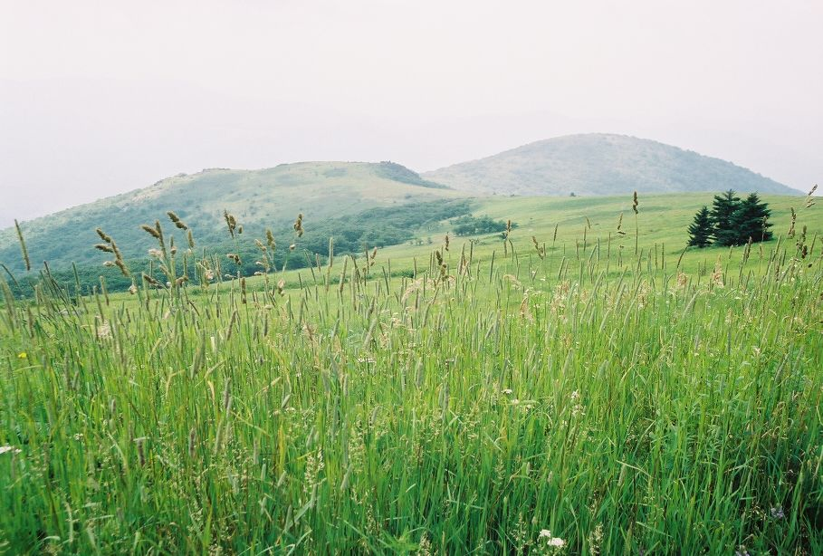 A picture on White Top mountain, Va, second highest mountain in Virginia. Taken July 25th, 2005, by RebelAt.